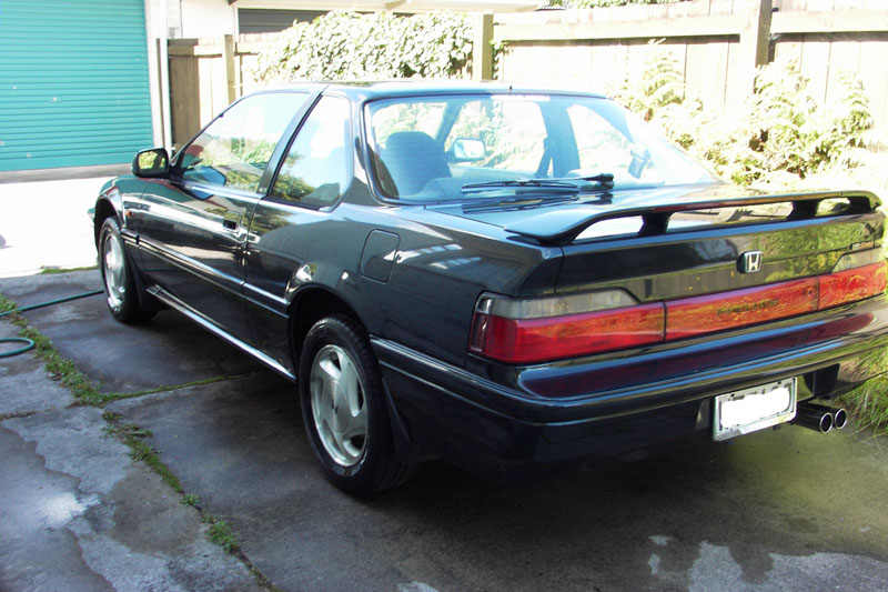 1990 Honda Prelude SE, Rare model, JDM (Japanese Domestic Market) Author: m1k30rz, owner of said vehicle.